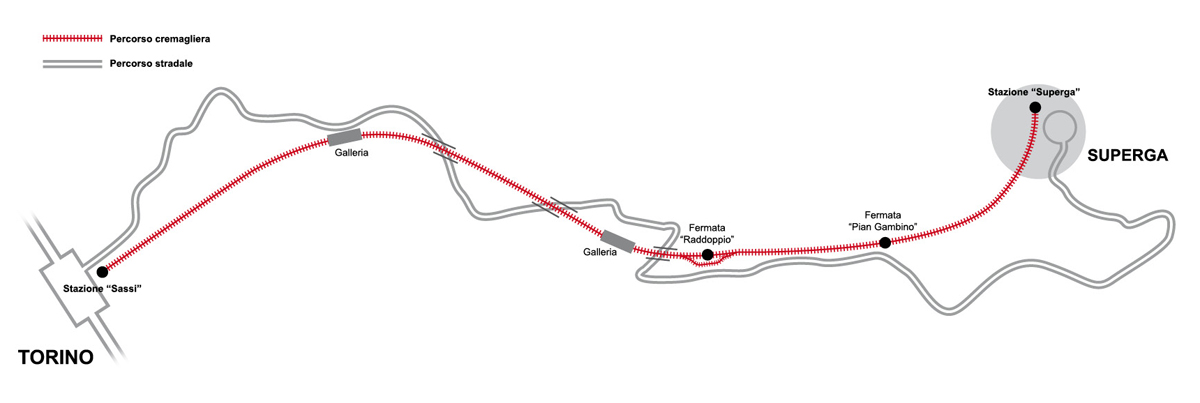 Route of Tramvia Sassi-Superga